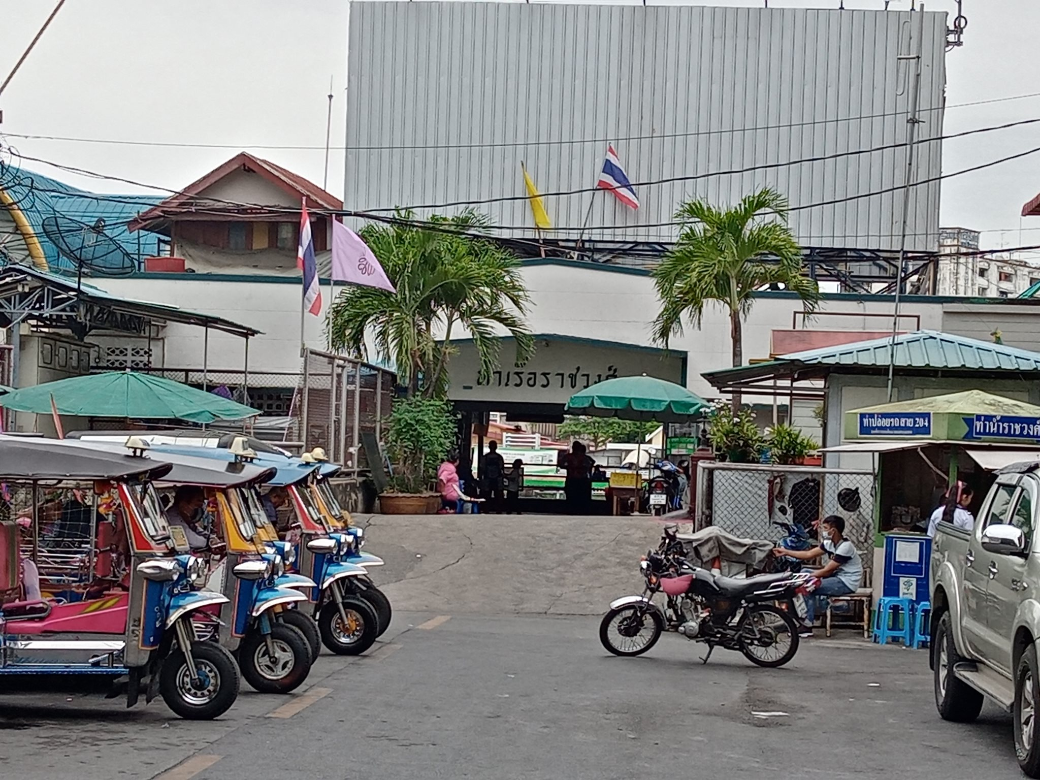 Ratchawong Pier (N5)